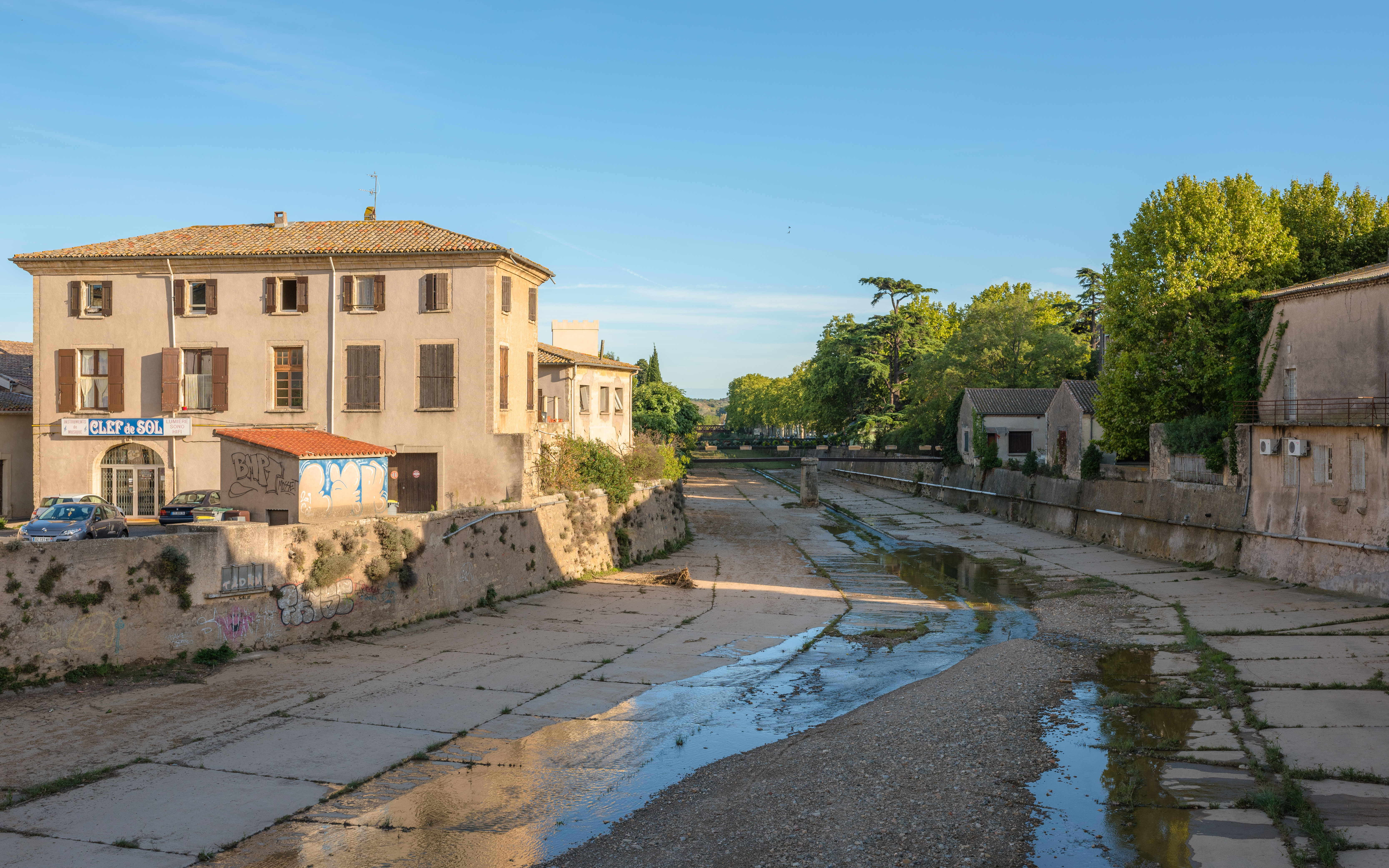 Peyne River from the bridge of the D913 (Departmental Road). Pézenas, Hérault, France.